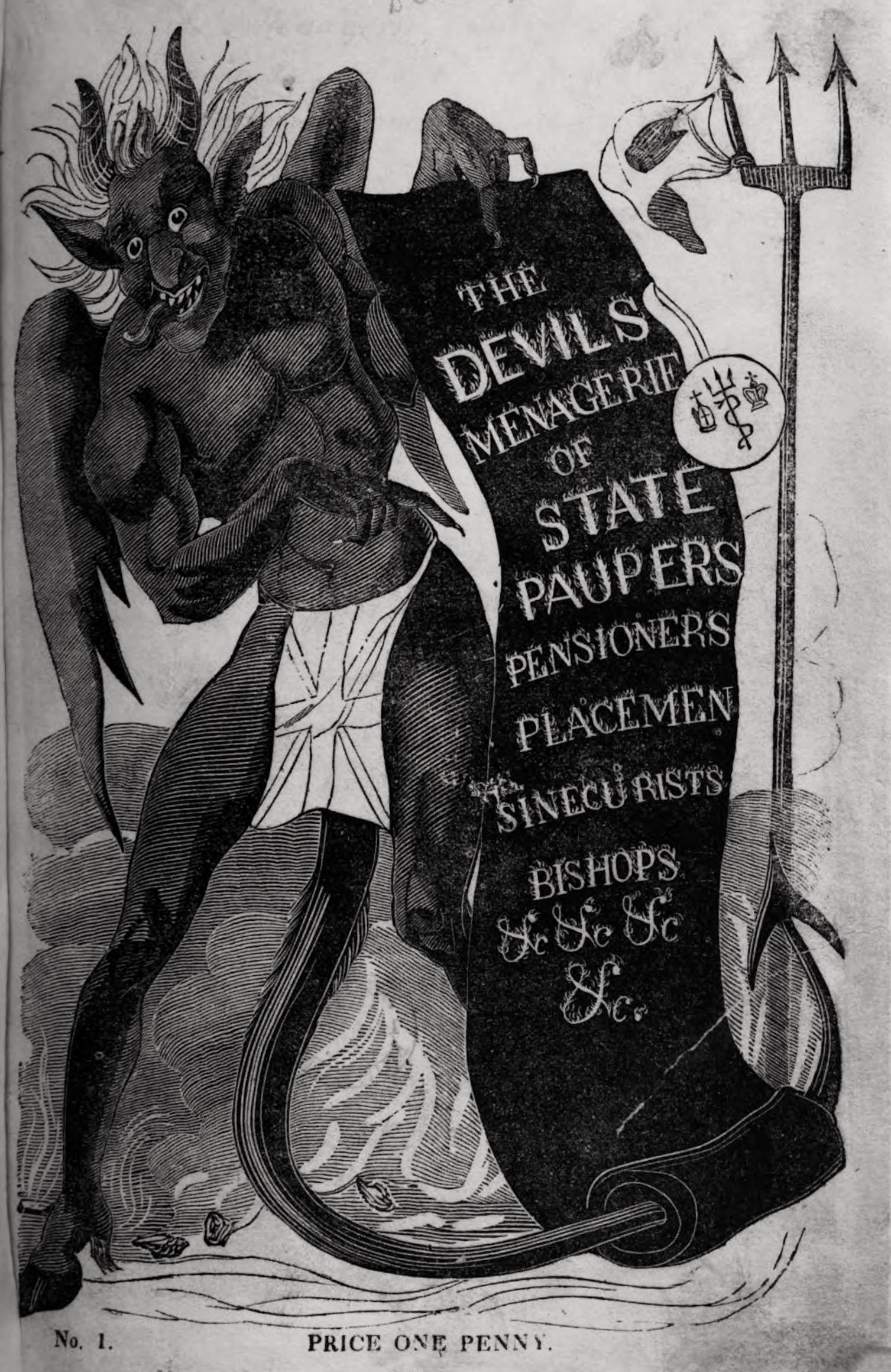 This is a cover illustration, which I have cropped and recoloured, to an anonymous satirical pamphlet The Devil's Menagerie of State Paupers, Pensioners, Placemen, Sinecurists, Bishops, &c, published in London circa 1832. The British Library has not determined its authorship. It was published by "W. Chubb"—probably William P. Chubb.